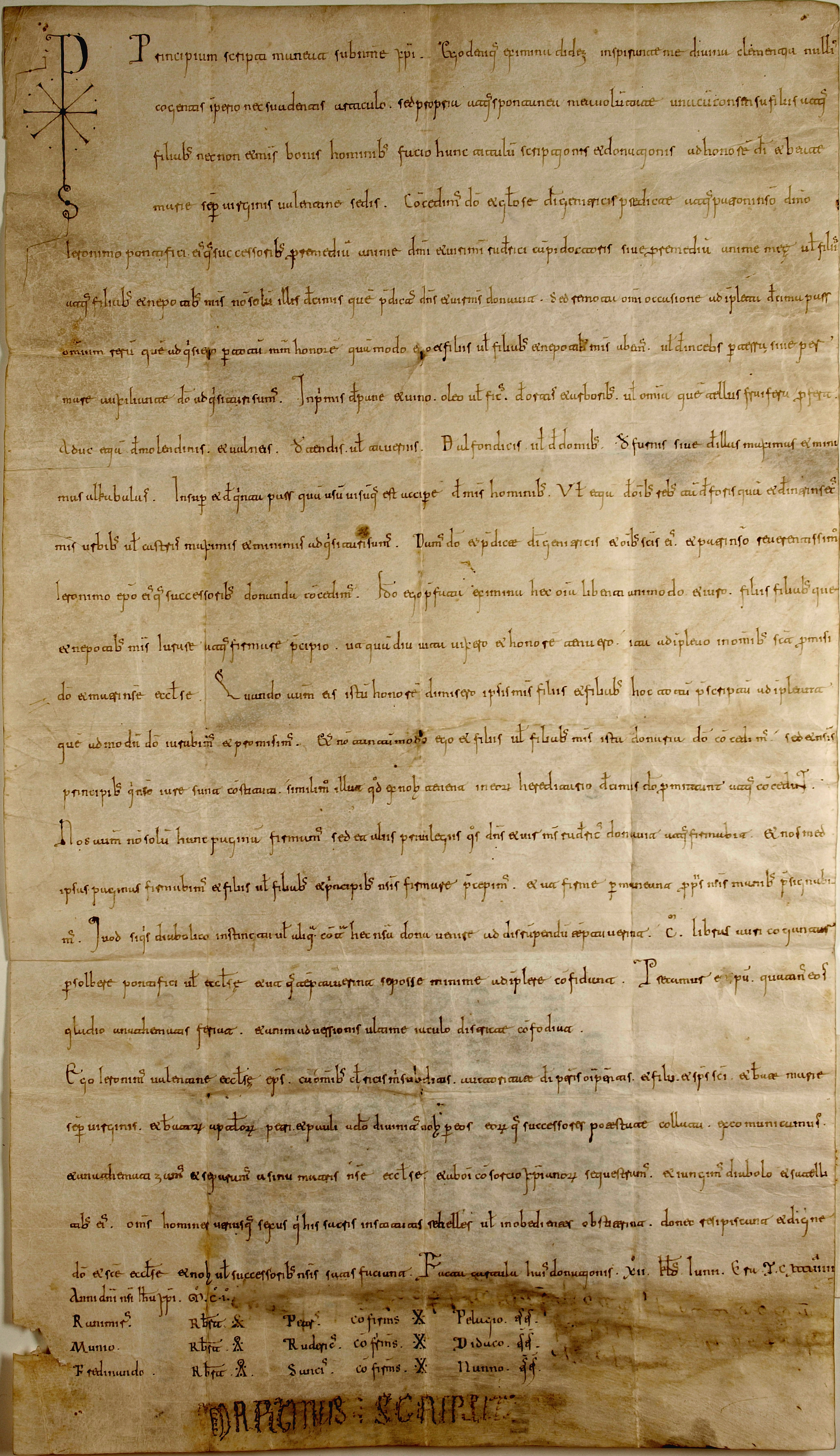 Original diploma of the Cid making a gift to the church of Valencia under Jerome